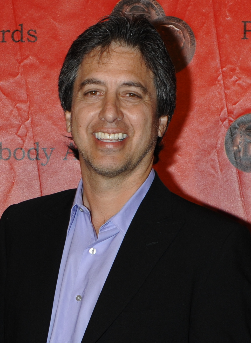 PHOTO CREDIT: ANDERS KRUSBERG / PEABODY AWARDS 70th Annual Peabody Awards Luncheon Waldorf=Astoria Hotel May 23, 2011